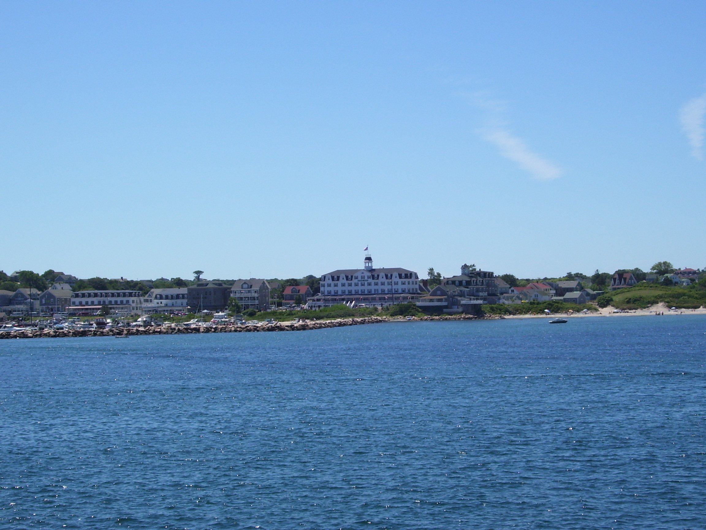 This is my 2008 photo of Old Harbor on Block Island, Rhode Island.